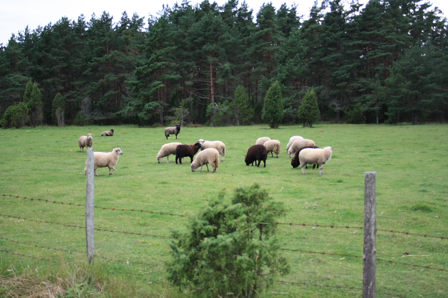 Flock of sheep in Emmaste village on Hiiumaa island in Estonia.